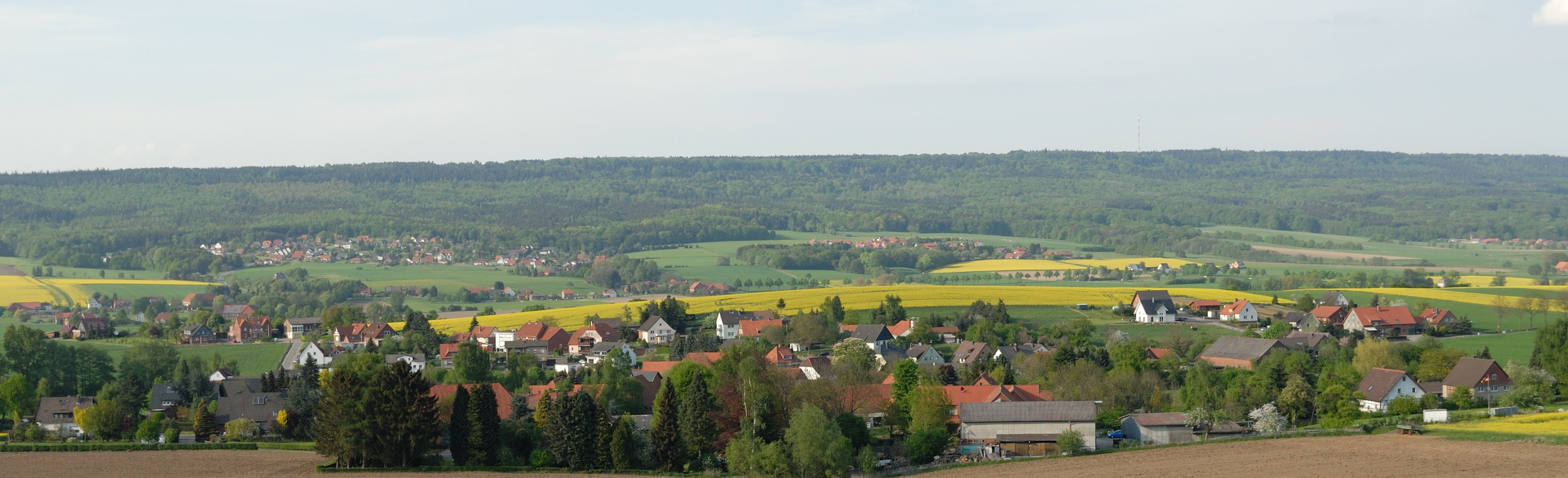 View of Auetal from A 2 highway. Road shot looking north.